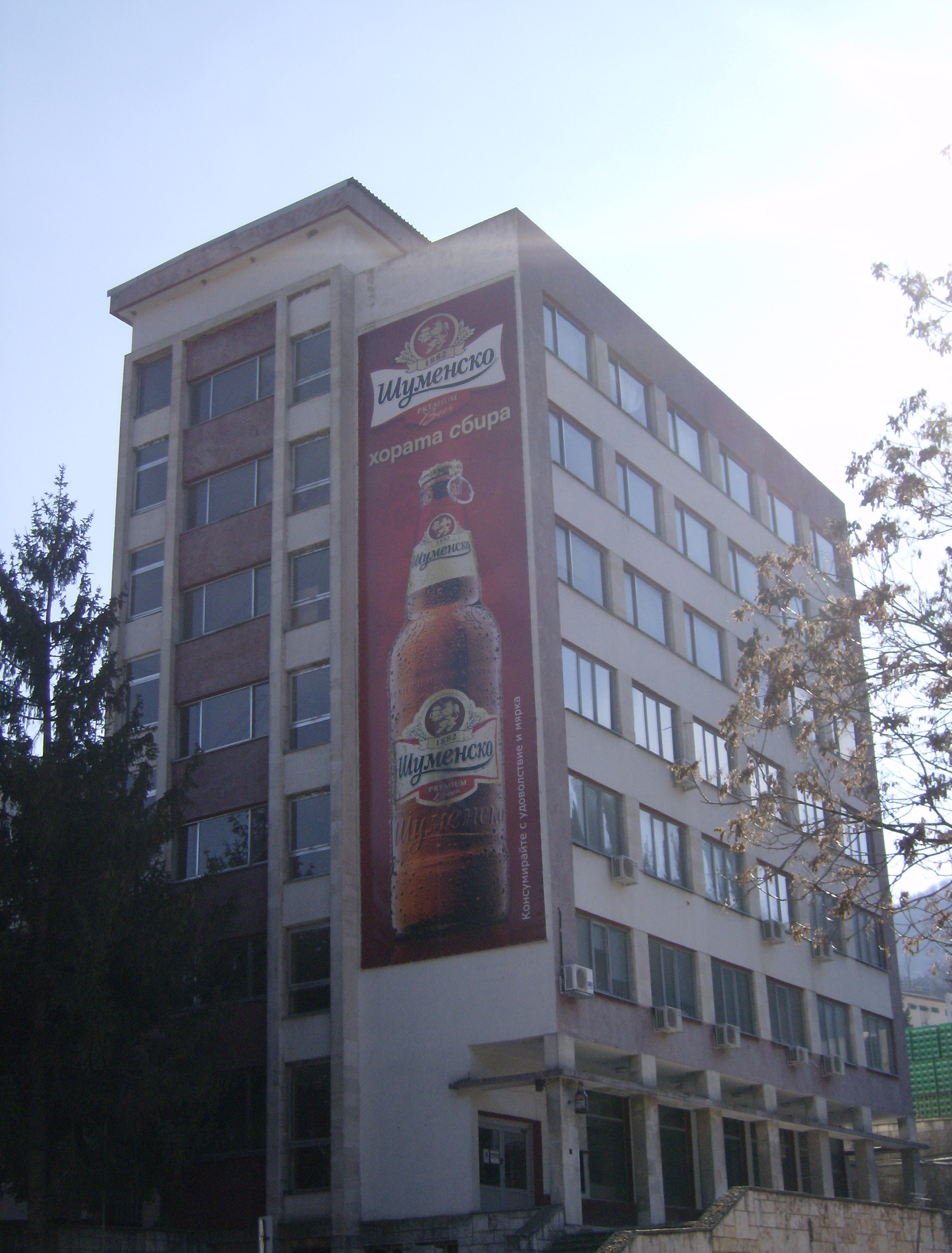 Shumensko